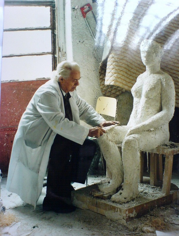 De Feo Giuseppe at work